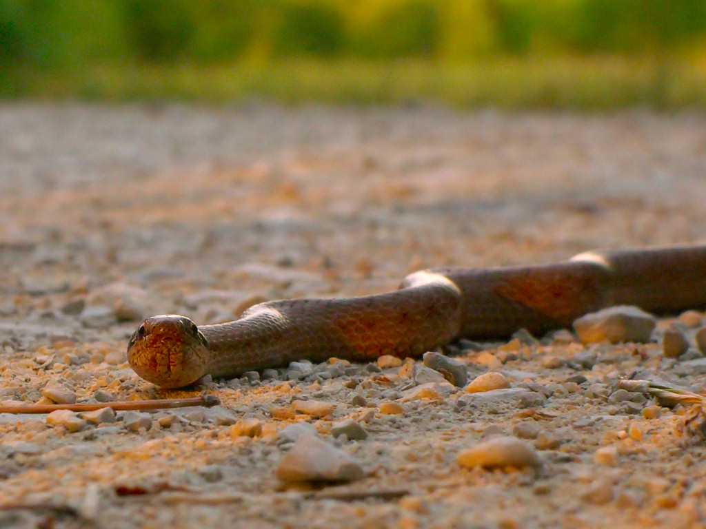 Smooth Snake (Coronella austriaca), Schling- oder Glattnatter)